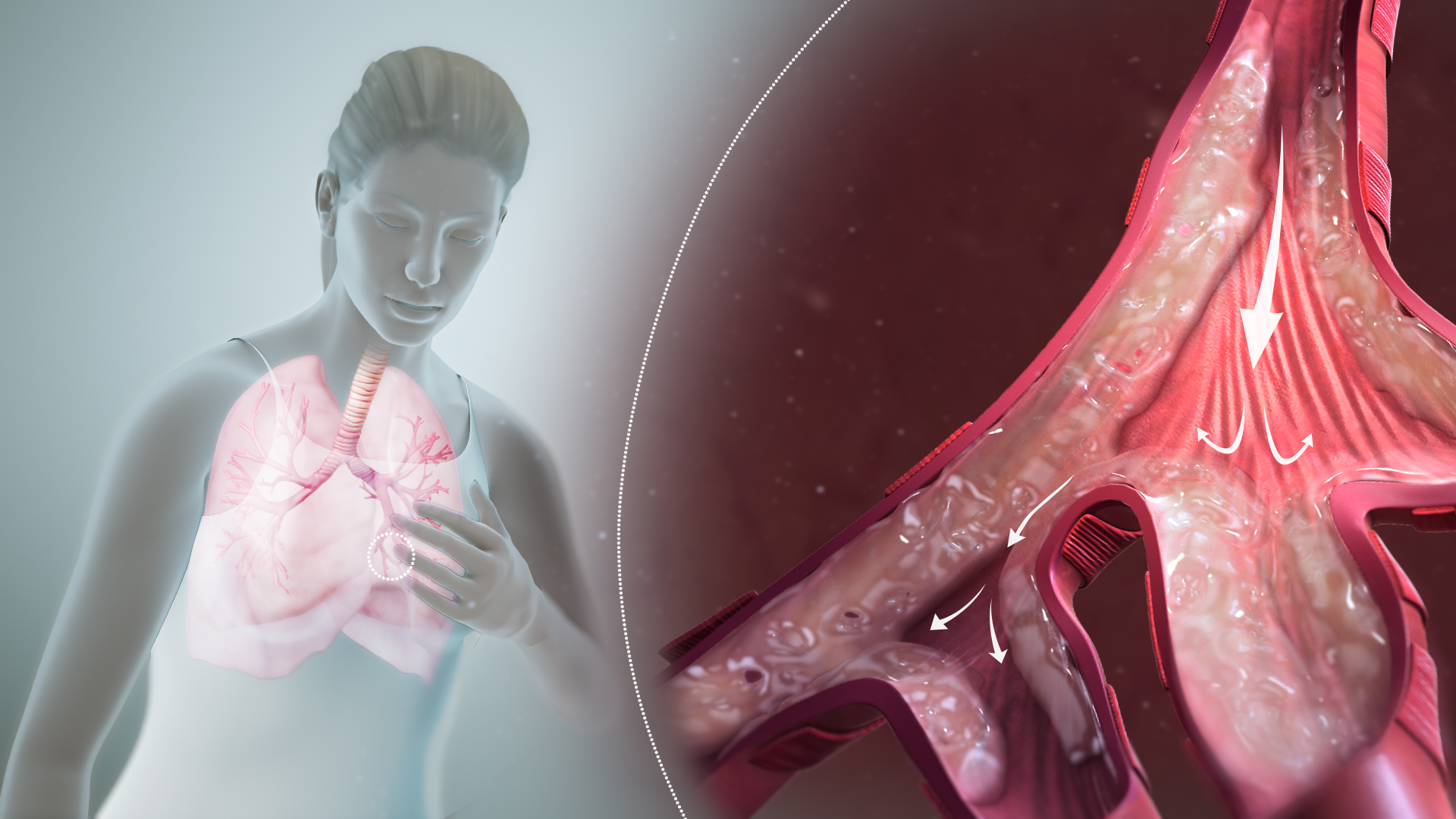 3D medical animation still showing bronchial asthma.